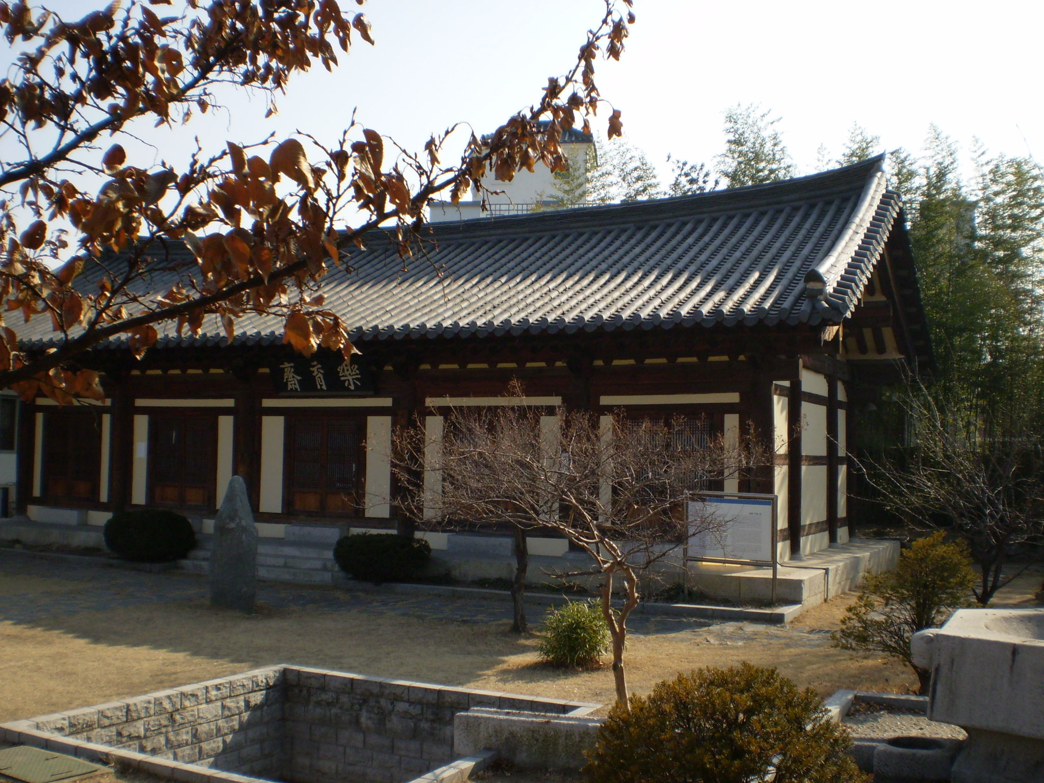 The Nagyukjae, Daegu's first public library, at the Daegu hyanggyo in Daegu, South Korea.